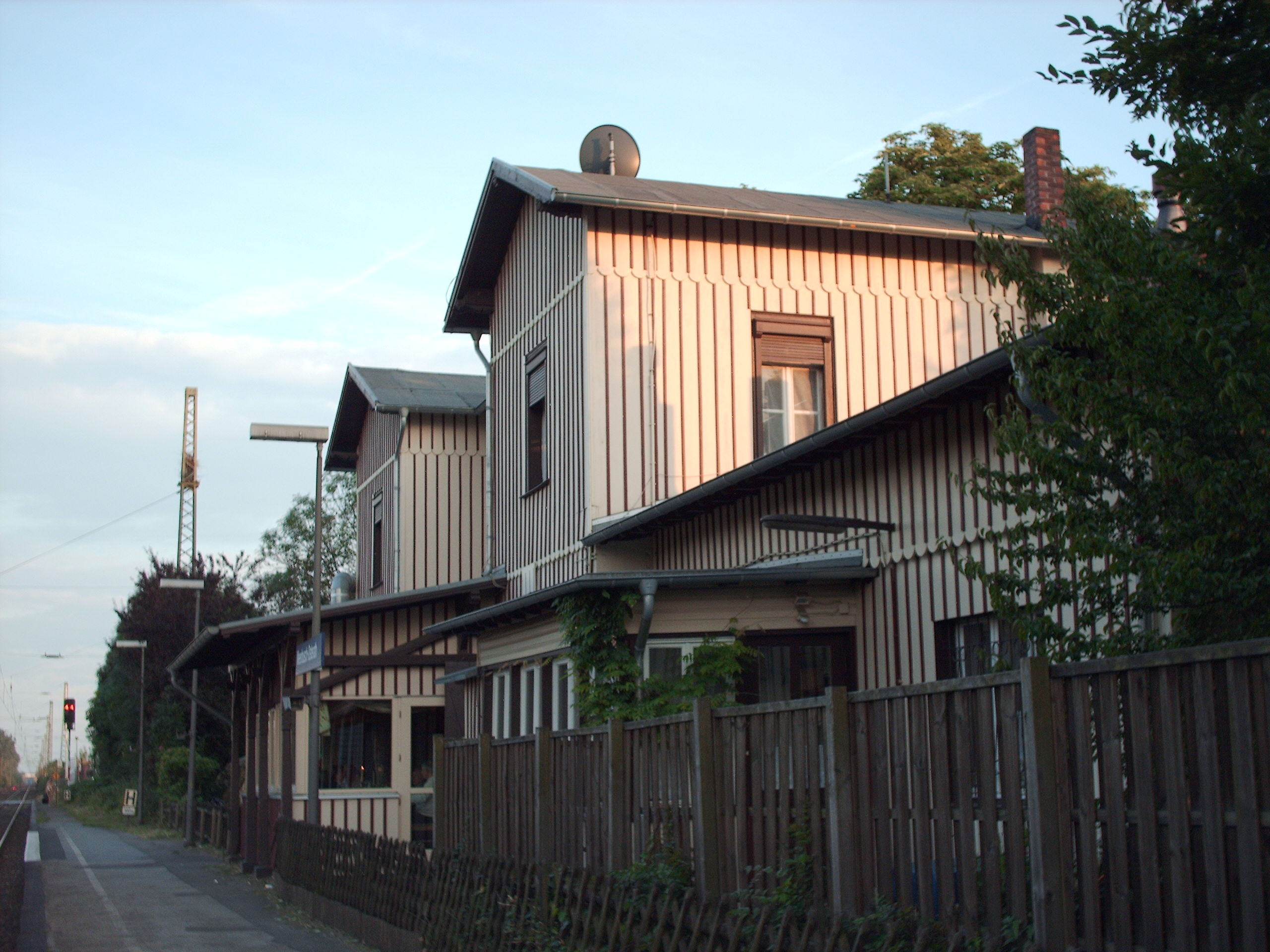 Meerbusch-Osterath station, Meerbusch, Germany check usage